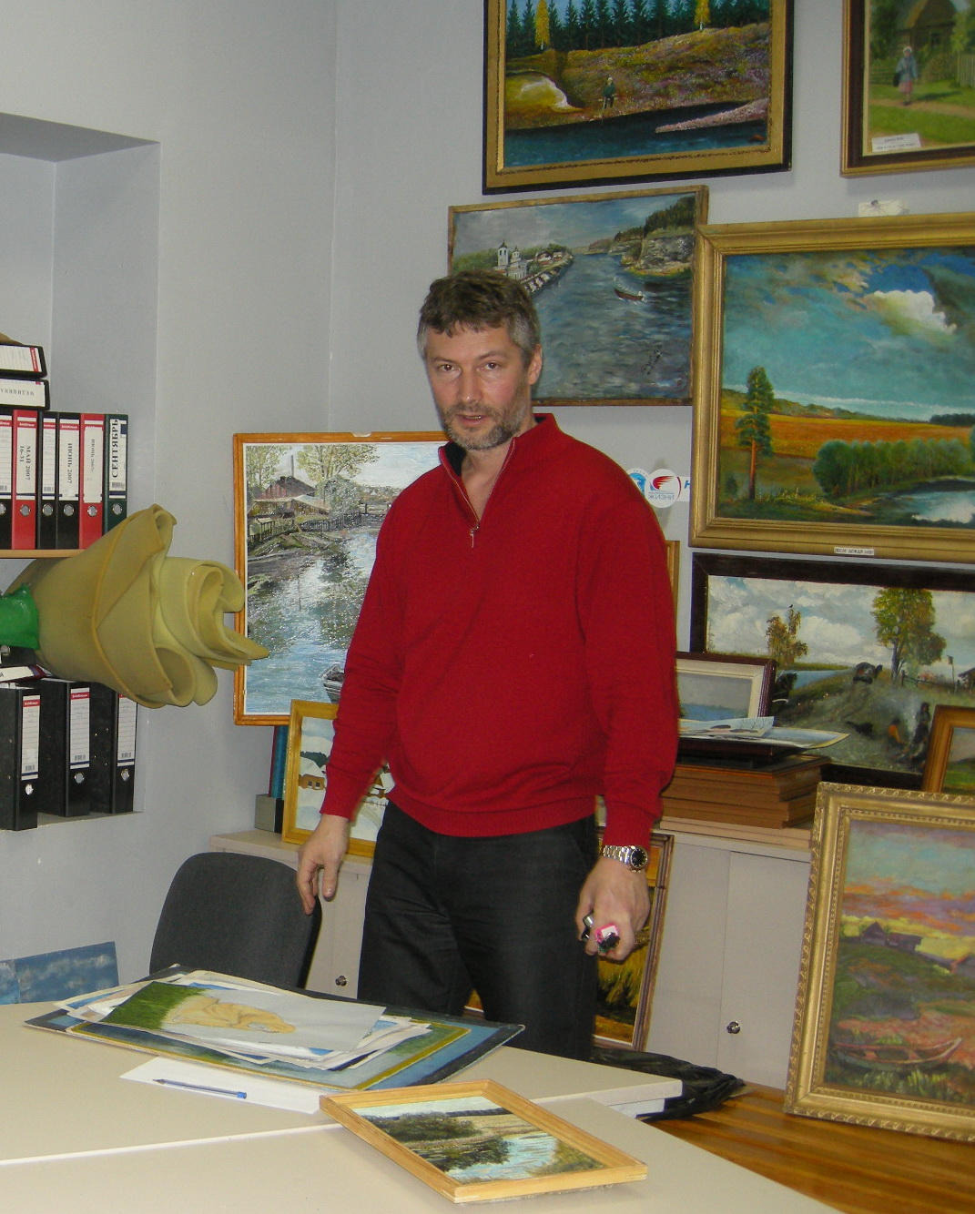 Eugene Roizman with part of his paintings collection.